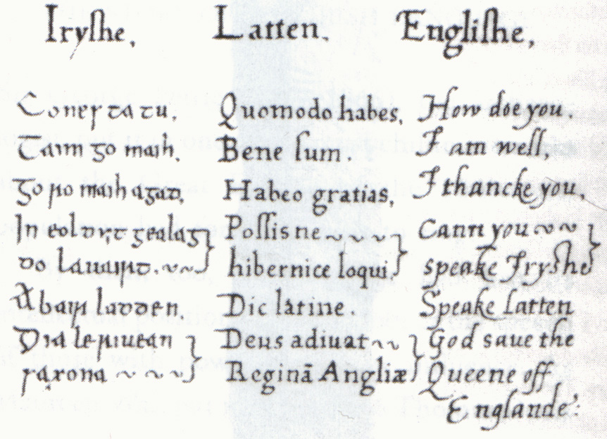 Irish/Latin/English phrasebook compiled for and used by Elizabeth I of England, the text reads: Iryshe,Latten,Englishe, Cones ta tu,Quomodo habes,How doe you, Taim go maih,Bene sum,I am well, Go ro maih agad,Habeo gratias,I thancke you, In eol duit gealag do lauairt, Possis ne hibernice loqui, Cann you speake Iryshe, Abair ladden,Dic latine,Speake Latten, Dia le riuean saxona, Deus adiuat Reginā Angliæ, God saue the Queene off Englande